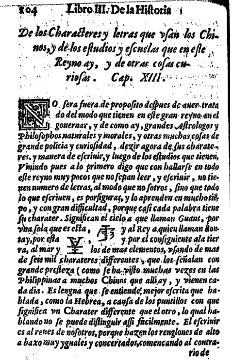 Page 133 (Part I, Book III, Chapter XIII) of Historia de las cosas más notables, ritos y costumbres del gran reyno de la China by Juan González de Mendoza. The first edition, 1585. This is possibly the first European book that gives (or, rather, attempts to give) examples of Chinese characters. This page gives two characters. The first, purportedly meaning "sky" or "heaven", is hard to identify; the second, said to mean "king" is apparently (very poorly written) 皇. This is discussed in the footnotes 1853 Hakluyt Society annotated edition of the 1588 English translation.